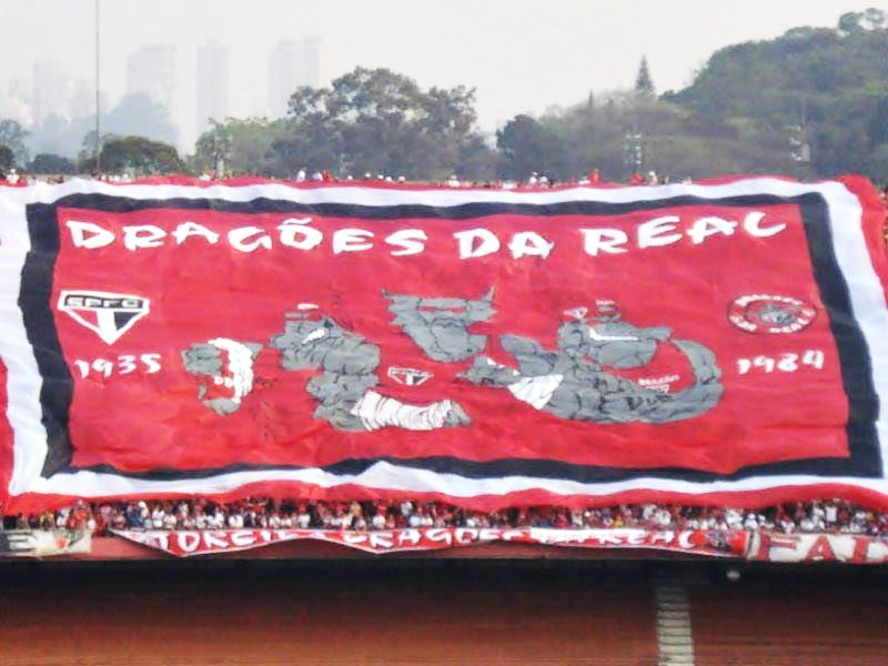 São Paulo FC Hooligans